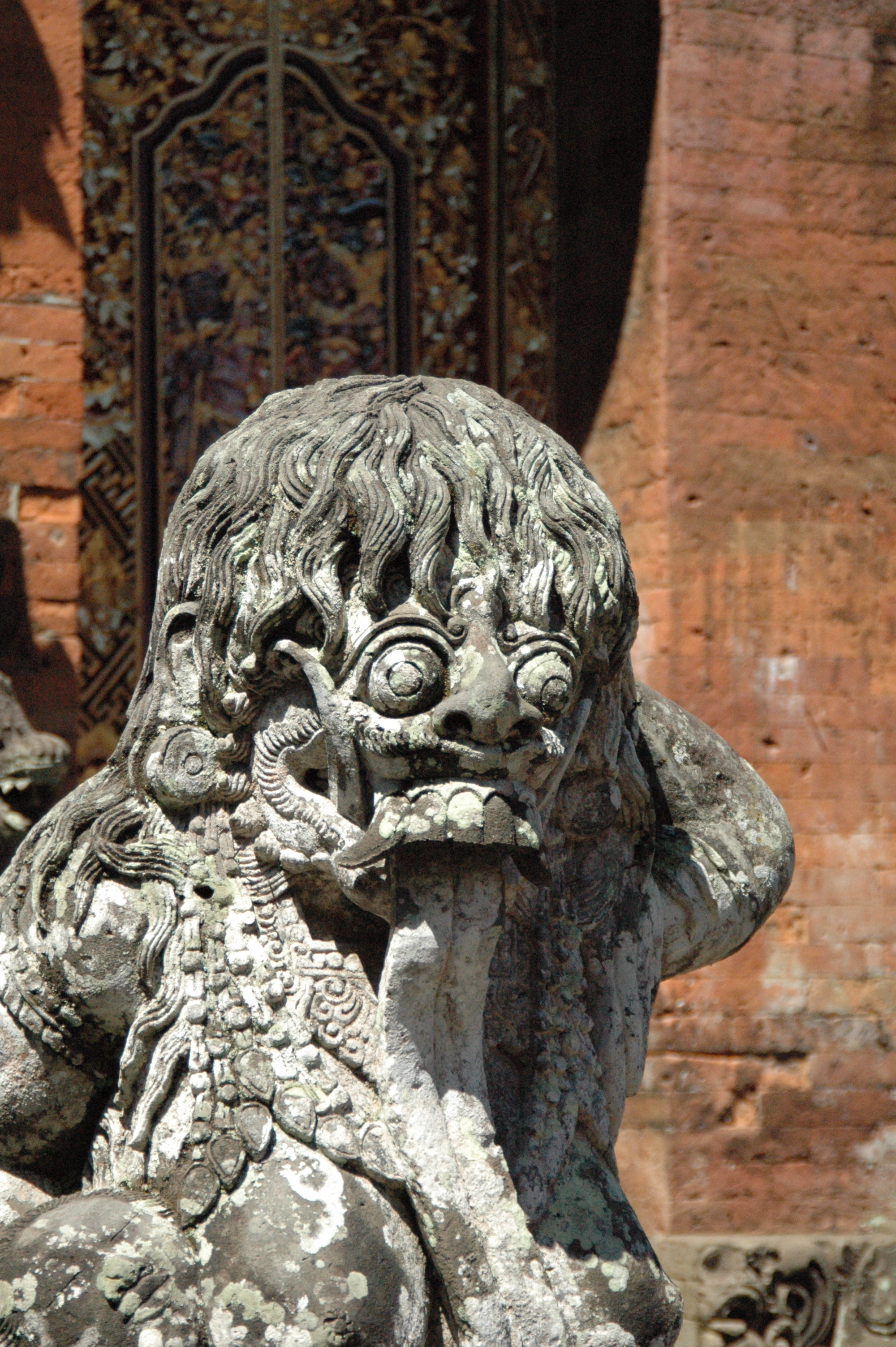 Statue of Rangda, the personification of evil in Balinese Hinduism, at a temple in Bali, Indonesia